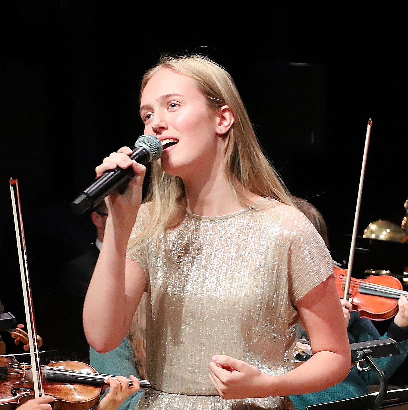 Norwegian singer Sigrid Haanshus